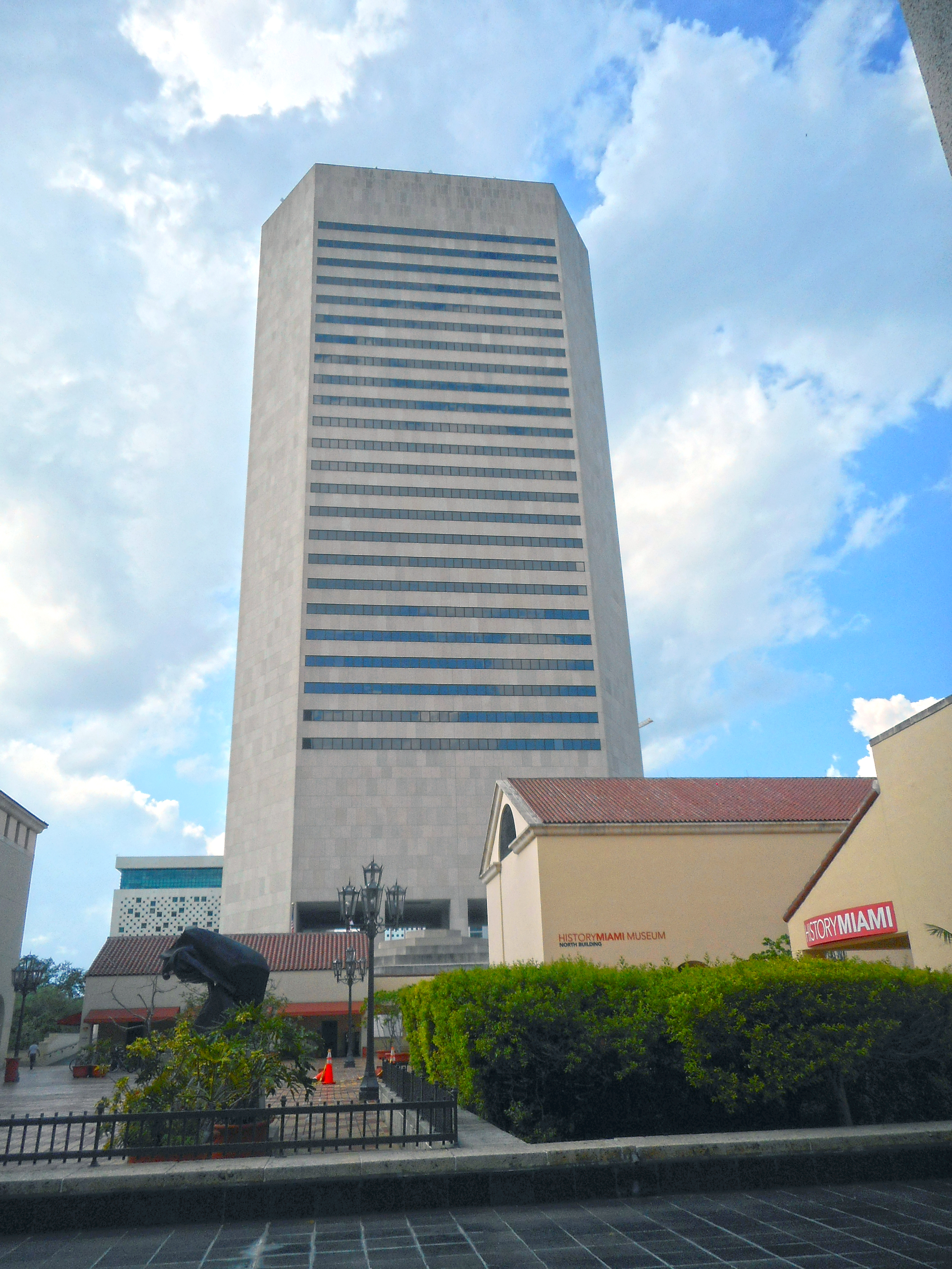 Stephen P. Clark Government Center seen from courtyard of Miami-Dade Main Library